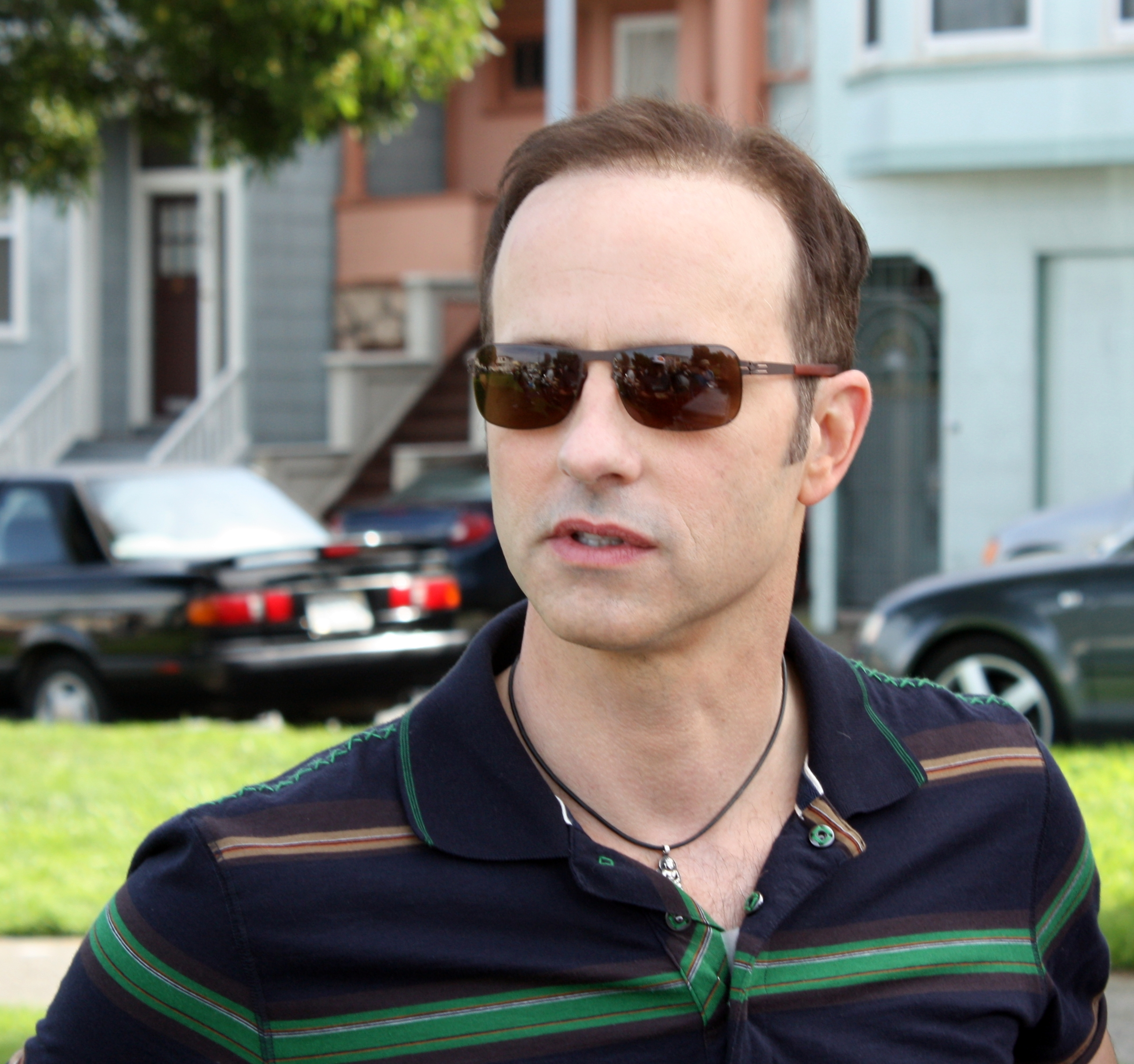 Former figure skater Brian Boitano at 2010 San Francisco Street Food